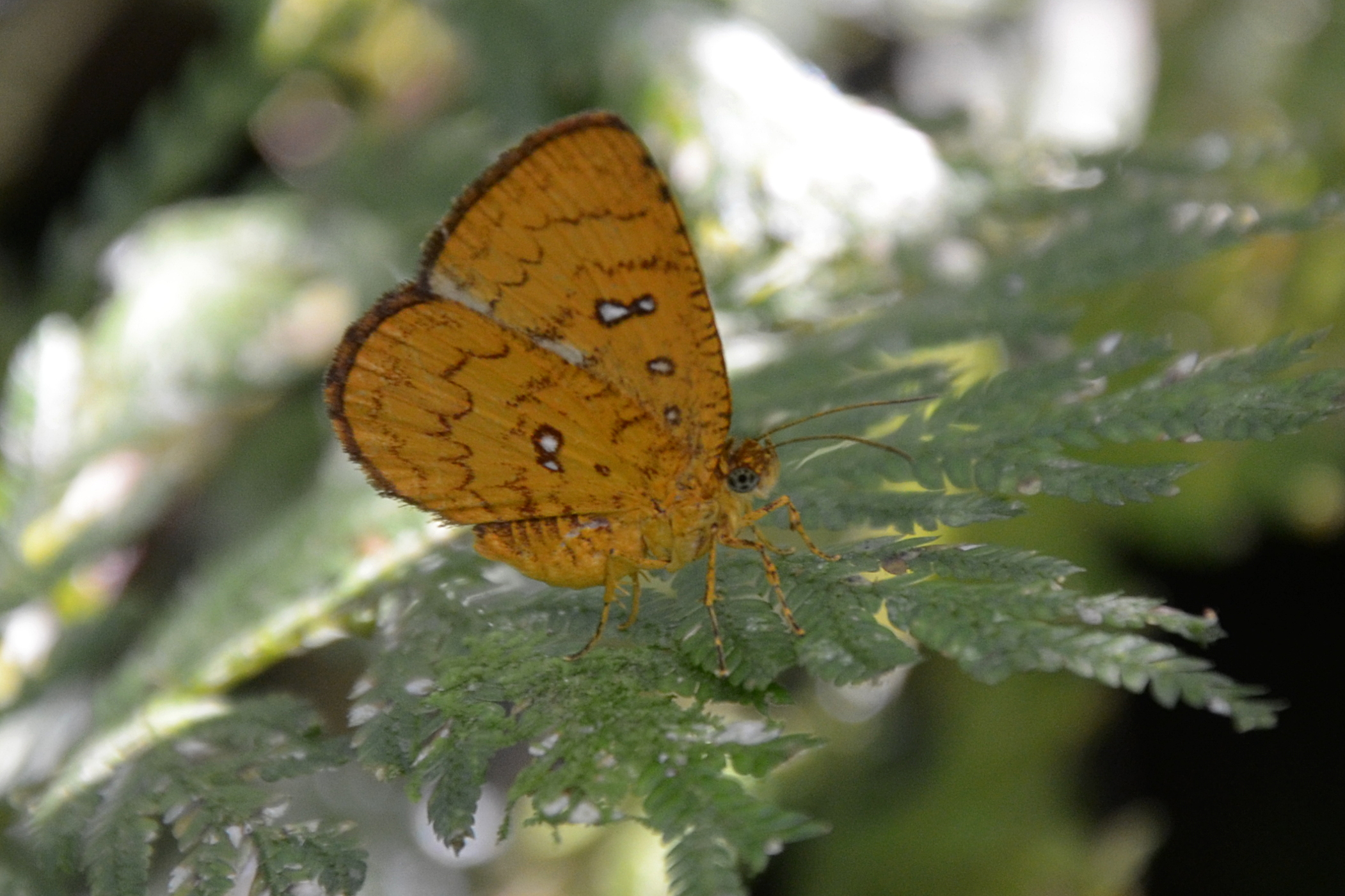 Callidula evander at Warembungan, Minahasa Regency, North Sulawesi